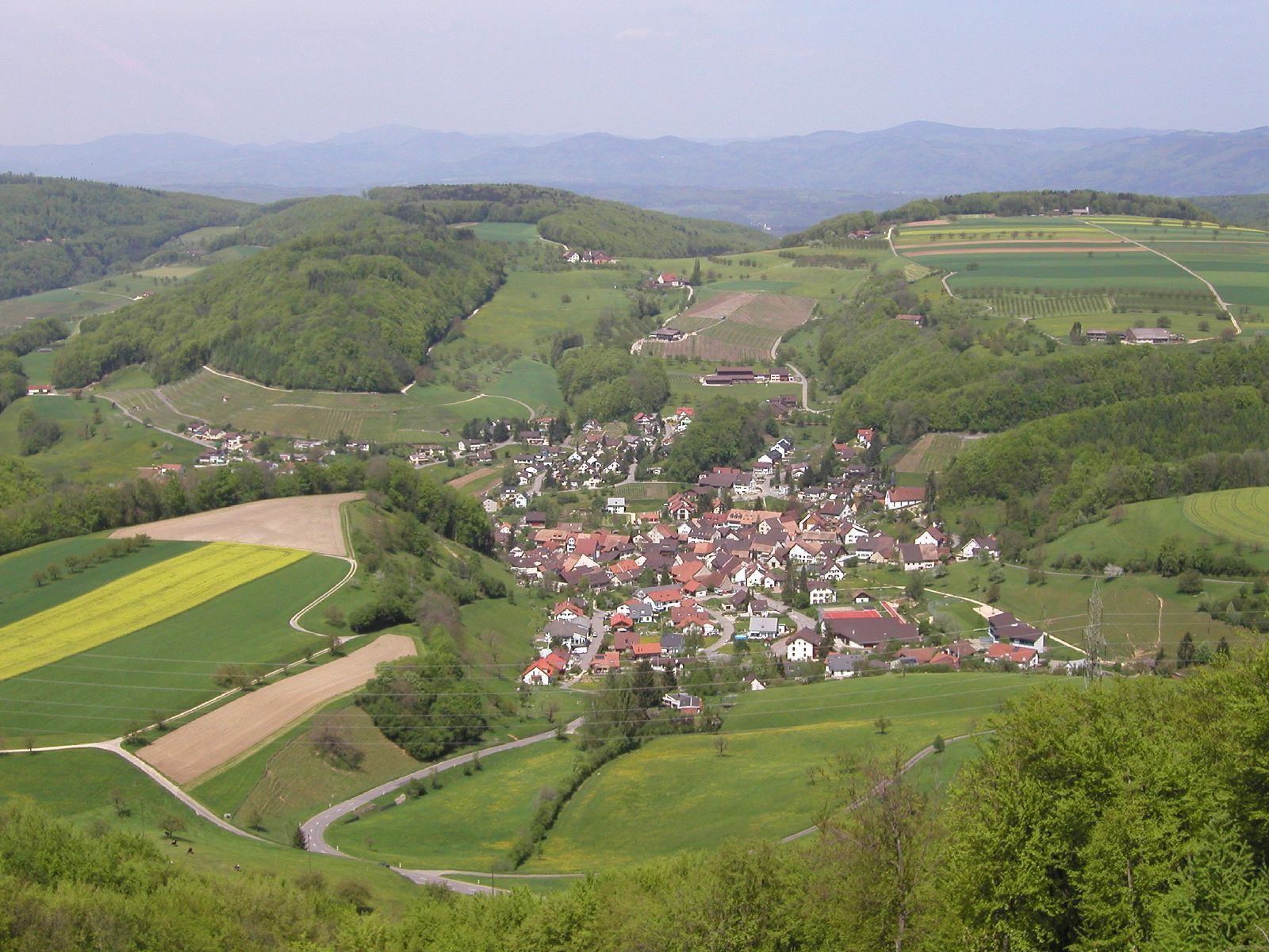 A view of Buus, BL, Switzerland in the spring from the Farnsburg castle ruin